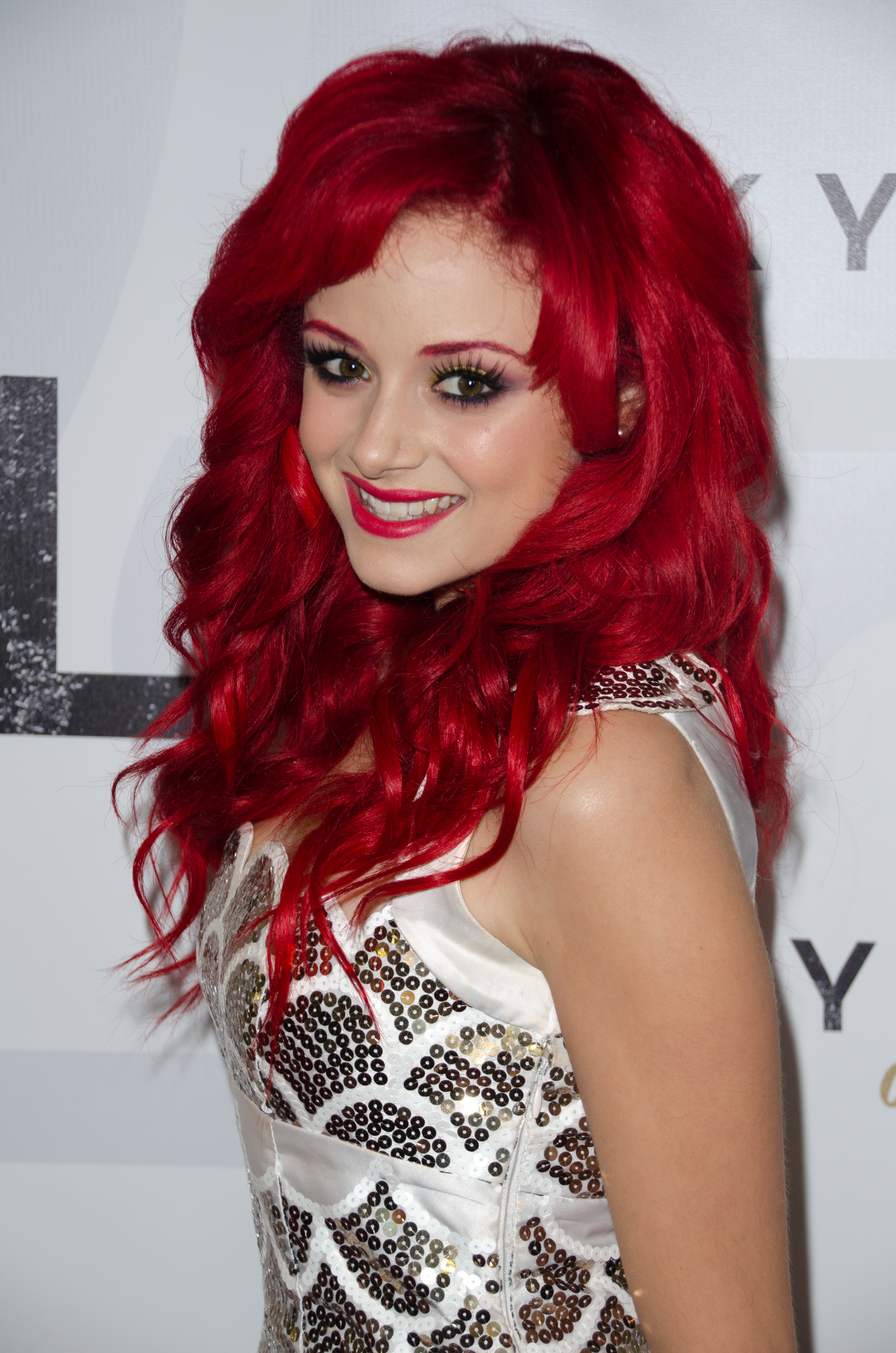 Sarah De Bono at the The Australian Premiere of James Bond - Skyfall at the State Theatre in Sydney, 2012.